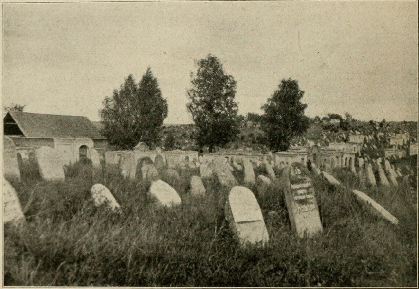 Jewish cemetery in Slonim